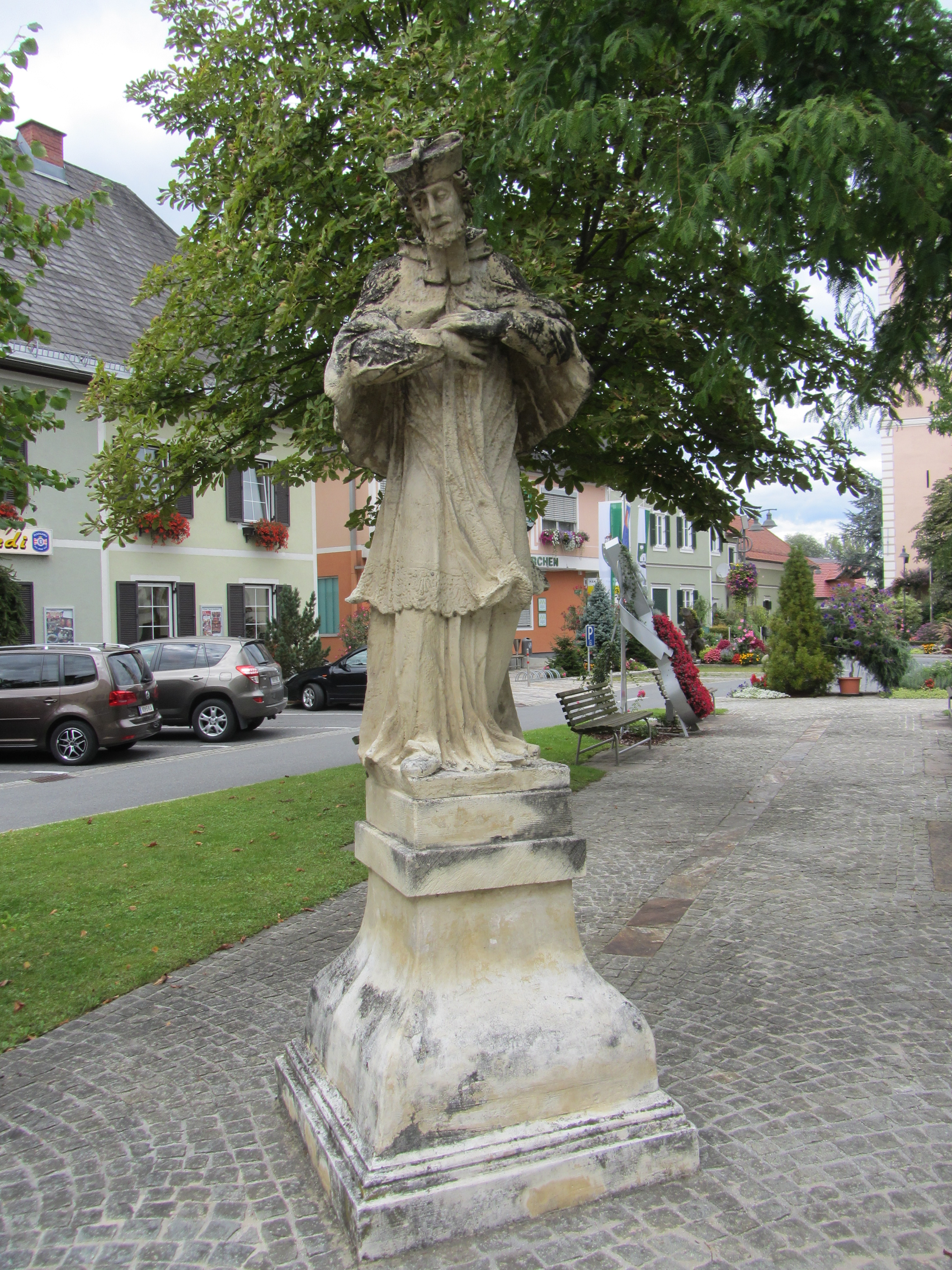 Figurenbildstock hl. Johannes Nepomuk